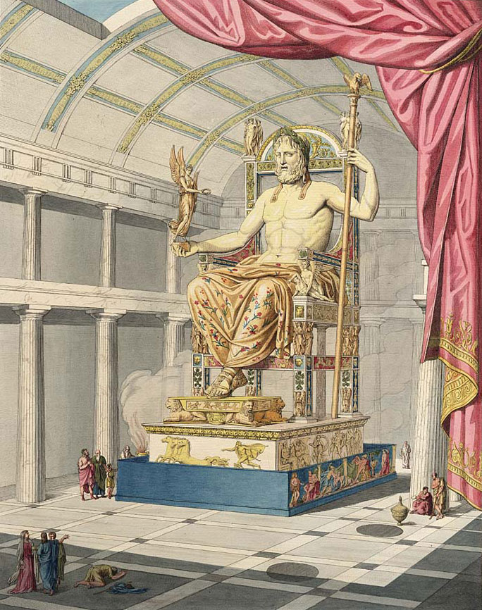 Zeus in Olympia. Feidias' statue in gold and ivory in Olympia's main temple. The statue was 12 meter high and decorated with paintings and precious stones.